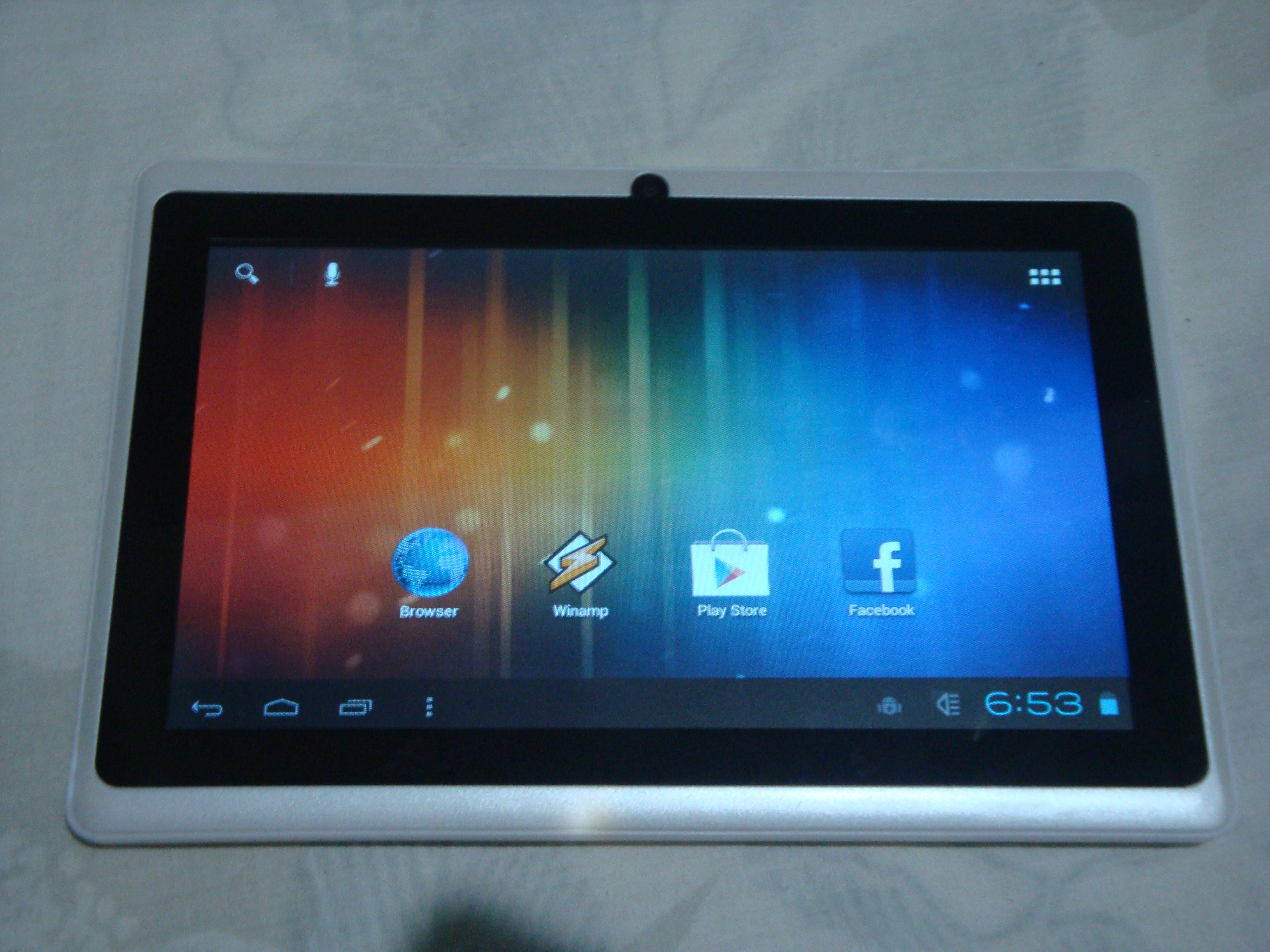 Photo of a generic tablet running on an AllWinner A13 SoC.